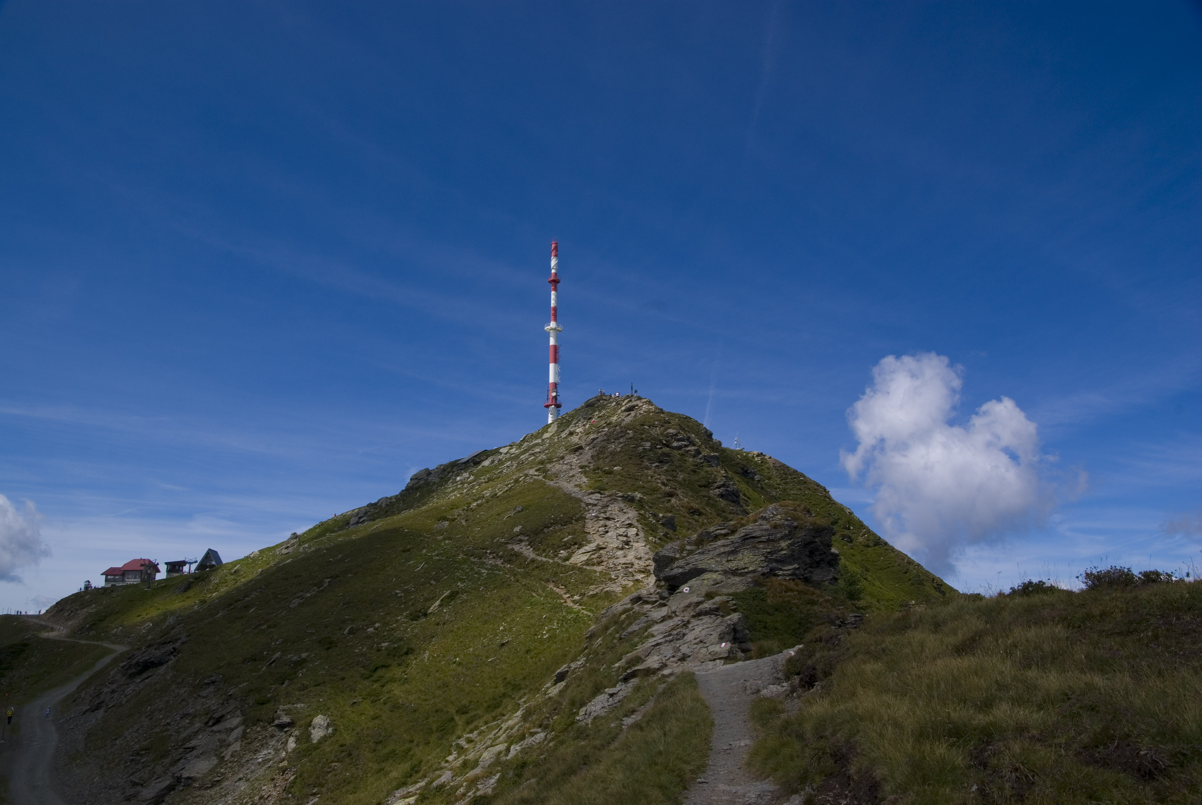 Goldeck in Austria